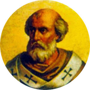 Portait of Pope Eugene II in the Basilica of Saint Paul Outside the Walls, Rome